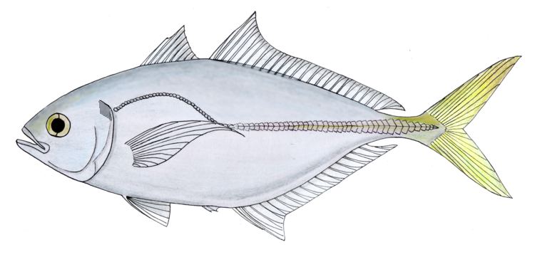 Hand drawn and coloured diagram of the shrimp scad, Alepes djedaba. Based on fishbase photograpsh by JE Randall.